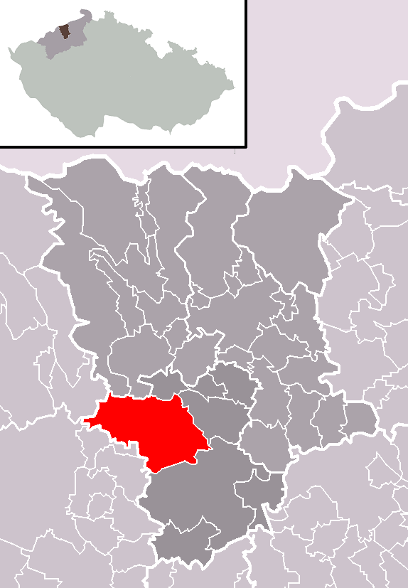 Location of Bílina town within Teplice District and administrative area of Bílina as a Municipality with Extended Competence.